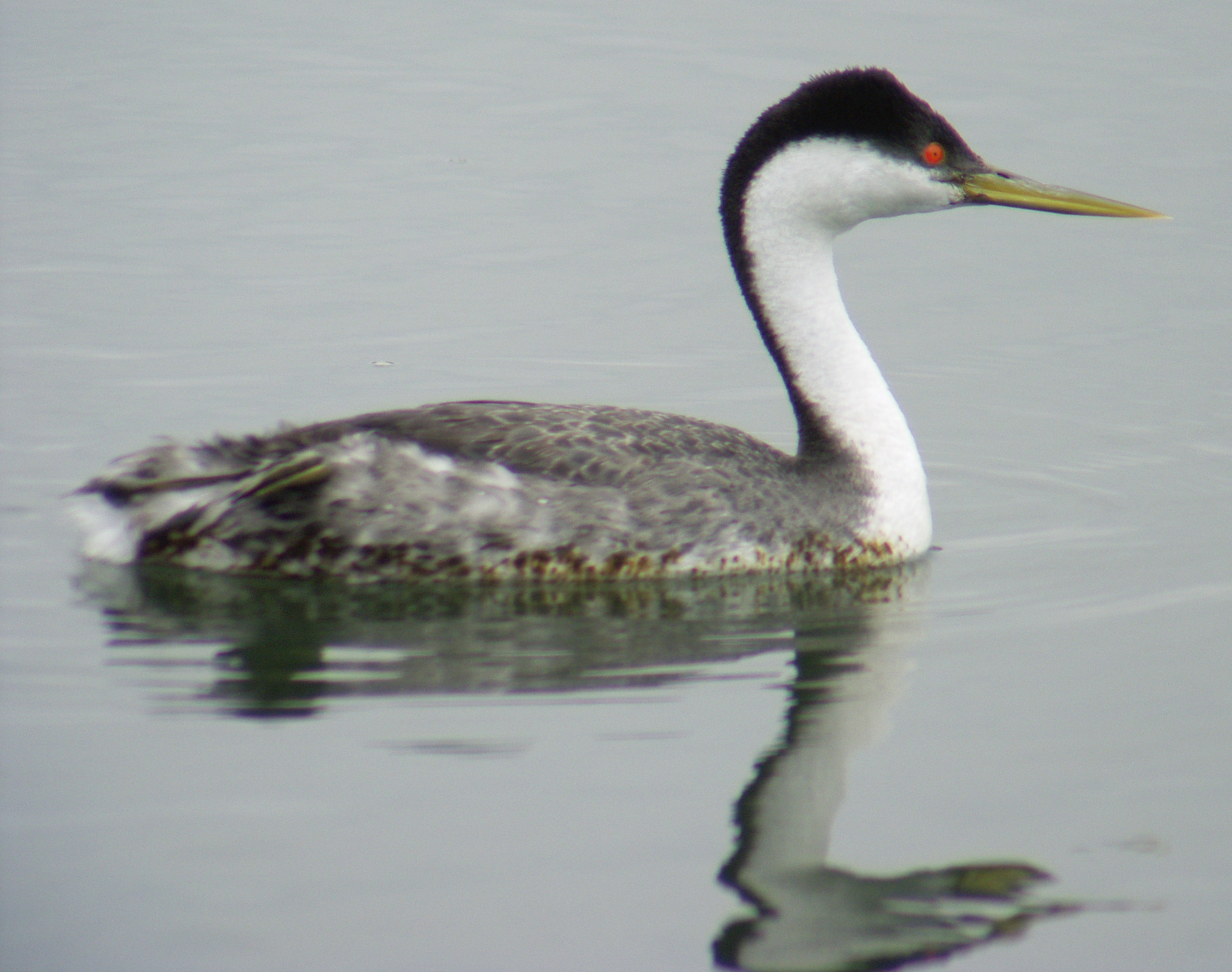 e08_P4281786, color-corrected and slightly cropped. Taken with a rig consisting of an Olympus E-20N, the front piece of a disassembled TCON-300S, and a Bushnell Spacemaster telescope. 35mm-equivalent focal length of the crop is 1500mm.